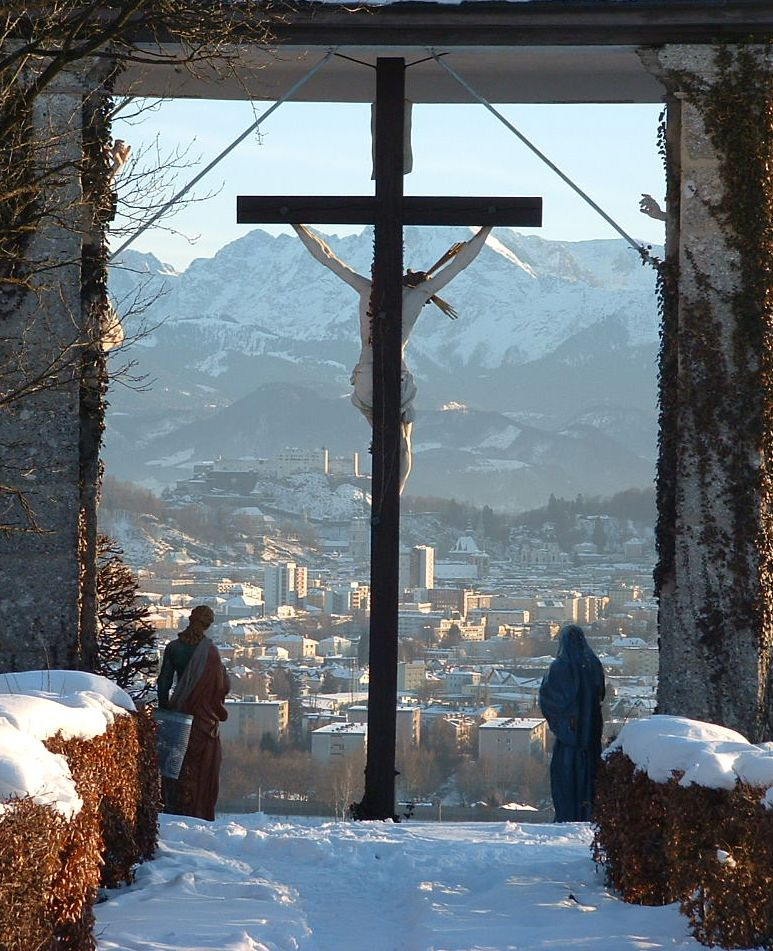 Salzburg: The Rome of the North (picture taken from the church of Maria Plain, to the north of the city) Photograph by Gakuro